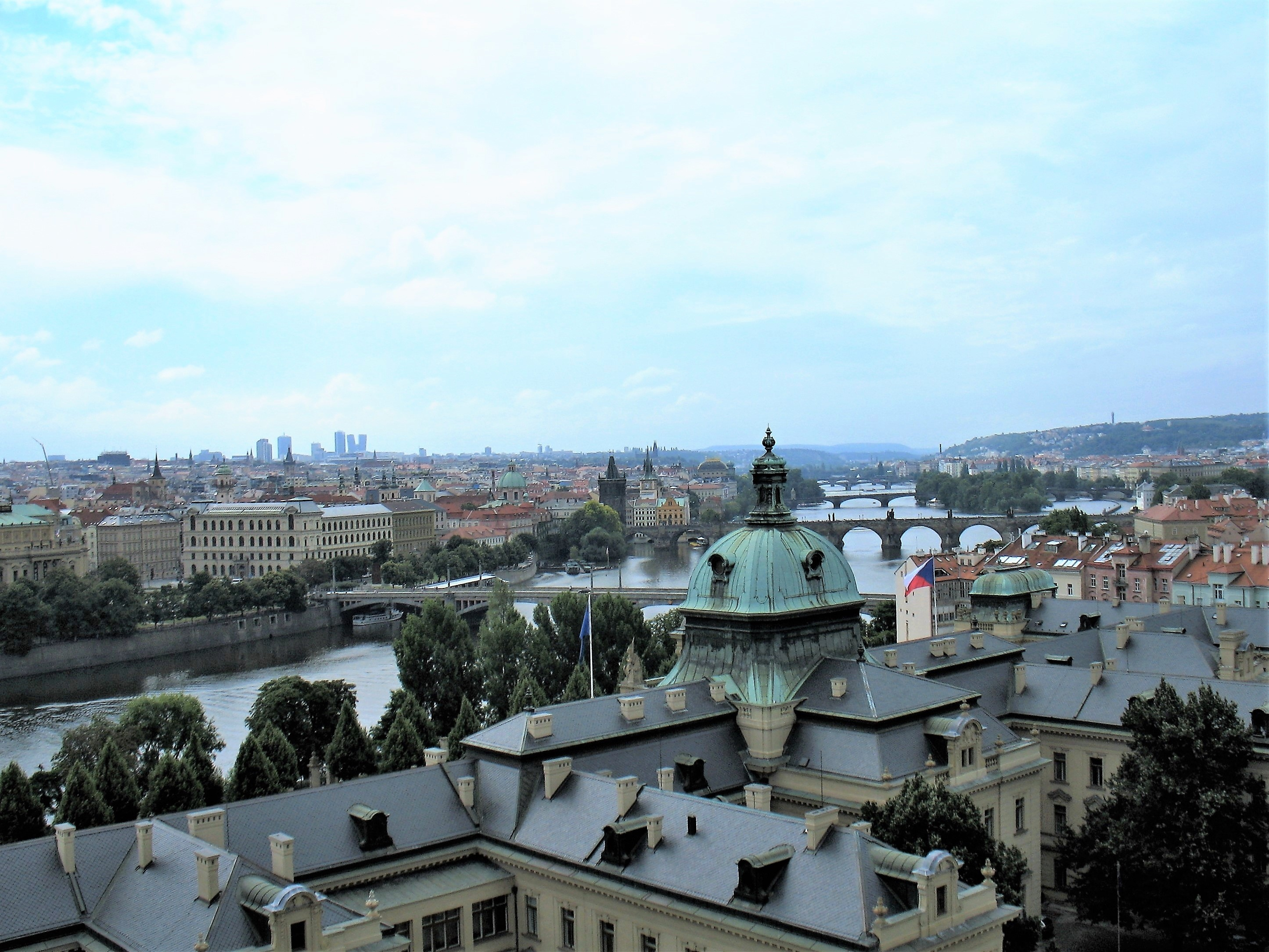 Views from Kramářova vila in Prague